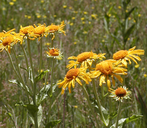 Hymenoxys hoopesii at Great Sand Dunes National Park, Colorado, USA